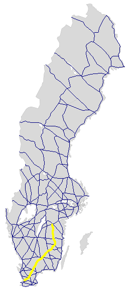 Map of Swedish riksväg (road) 23